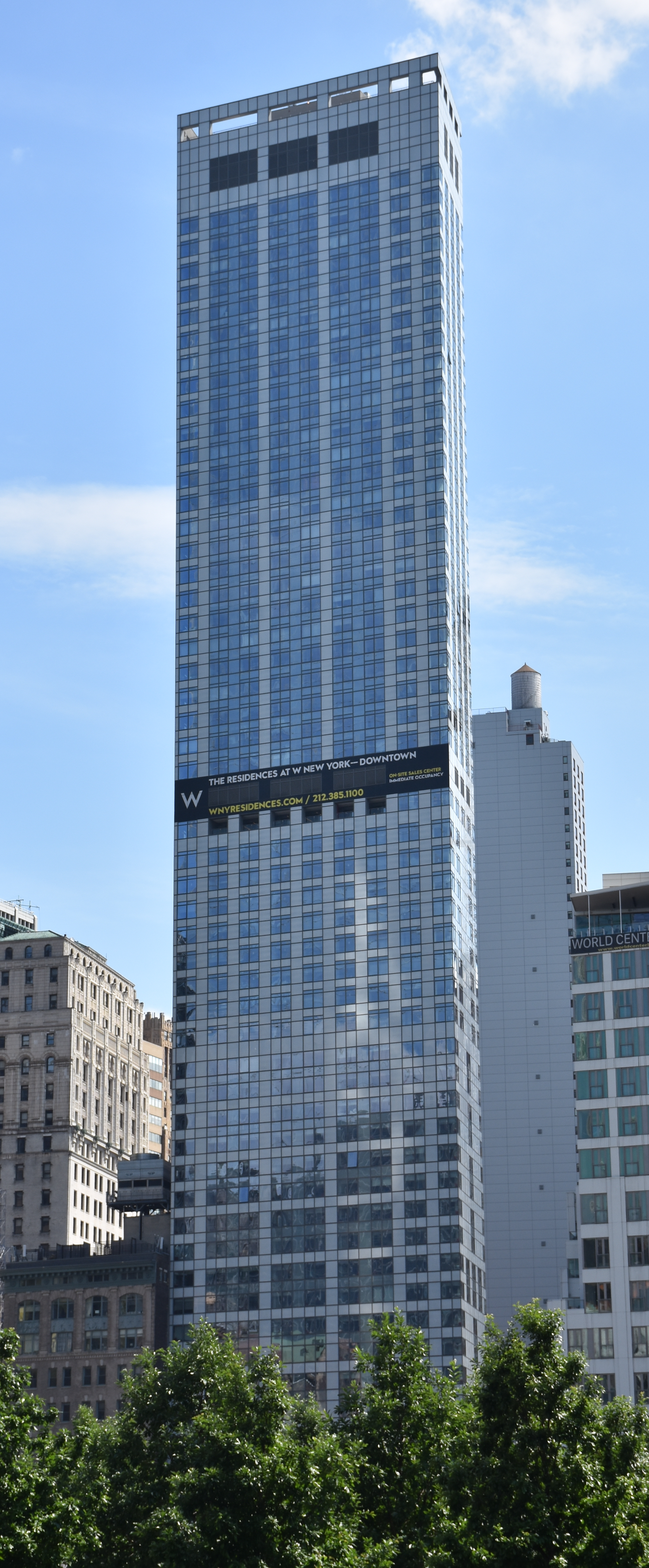 W New York Downtown Hotel and Residences in June 2015